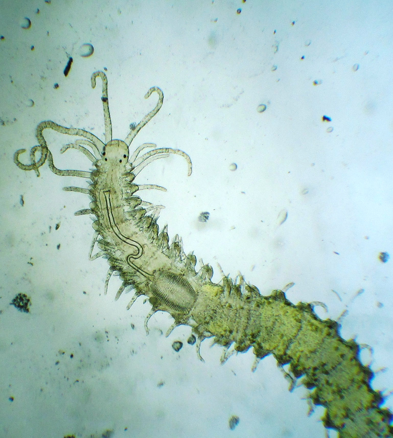 Myrianida cf. edwarsi, Calafuria (LI)(Ligurian Sea). Mesolittoral